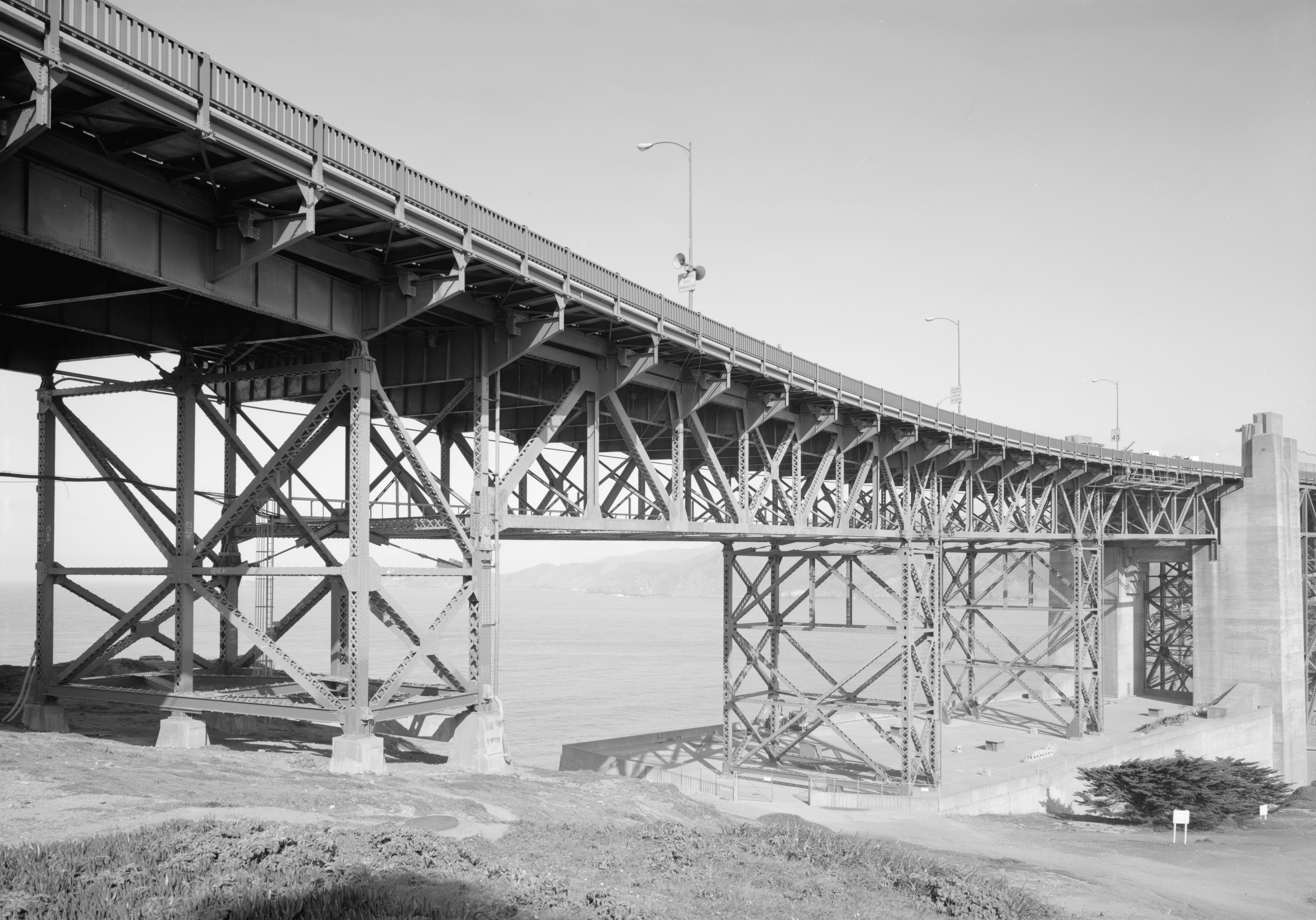 Golden Gate Bridge — DETAIL VIEW of south TRESTLE and TRUSS near Fort Point in San Francisco. HAER—Historic American Engineering Record images of the Golden Gate Bridge.